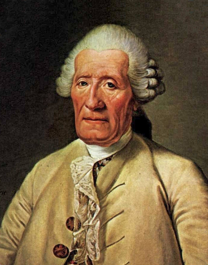 Jacques de Vaucanson (1709-1782), French artist and inventor, renowned for his mechanical automata, as painted by Joseph Boze